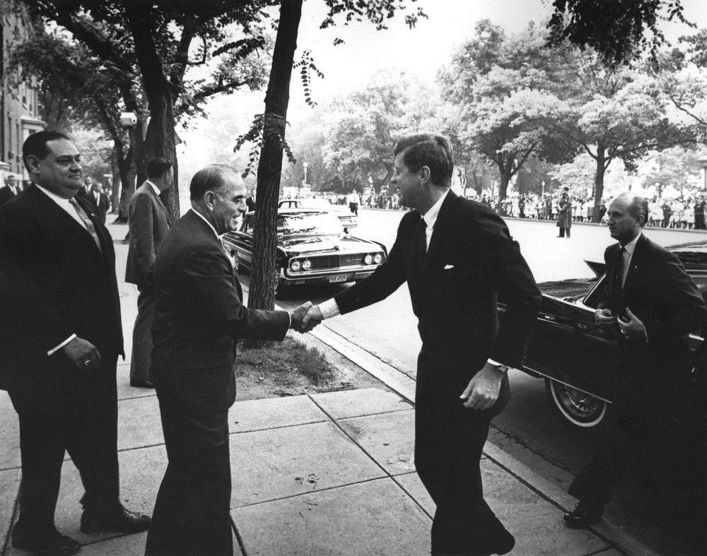 JFK hosted the visit of President of Panama, Roberto F. Chiari. To return Kennedy’s hospitality, Chiari gave a luncheon in his honor. Kennedy, accompanied by protocol chief Angier Biddle Duke, is seen being greeted by Chiari outside of Blair House.